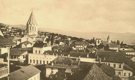 The capital city Shusha before its destruction in 1920.